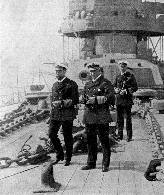 King George V (left) and Admiral Callaghan onboard British battleship HMS Neptune. In the background is "A" turret with 2 12-inch Mk XI guns.